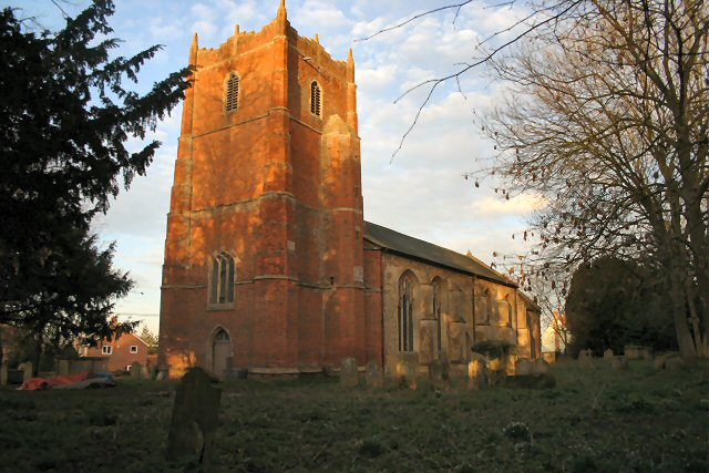 St Mary's parish church, Gislingham, Suffolk, seen from west-southwest